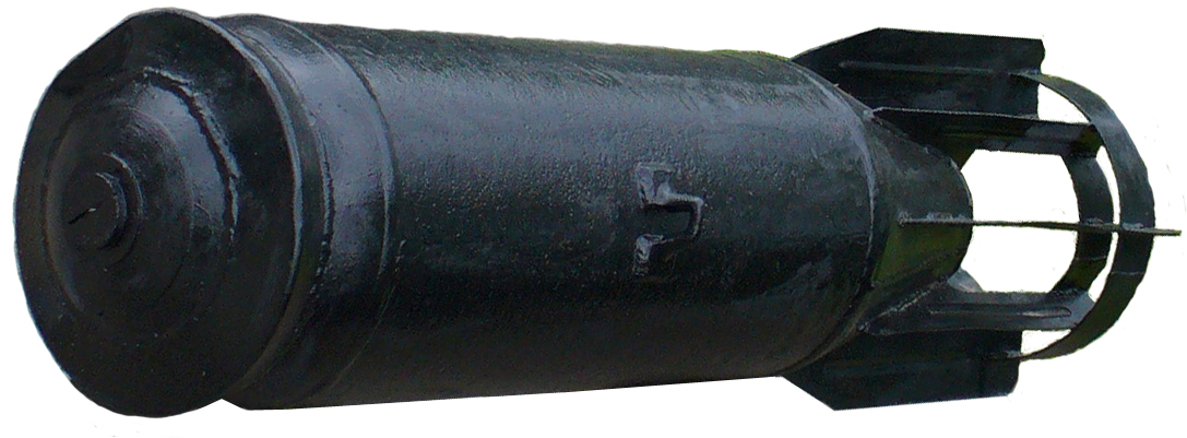 The Soviet/Russian bomb OFAB-250-270. Ukrainian Air Force Museum in Vinnitsa.